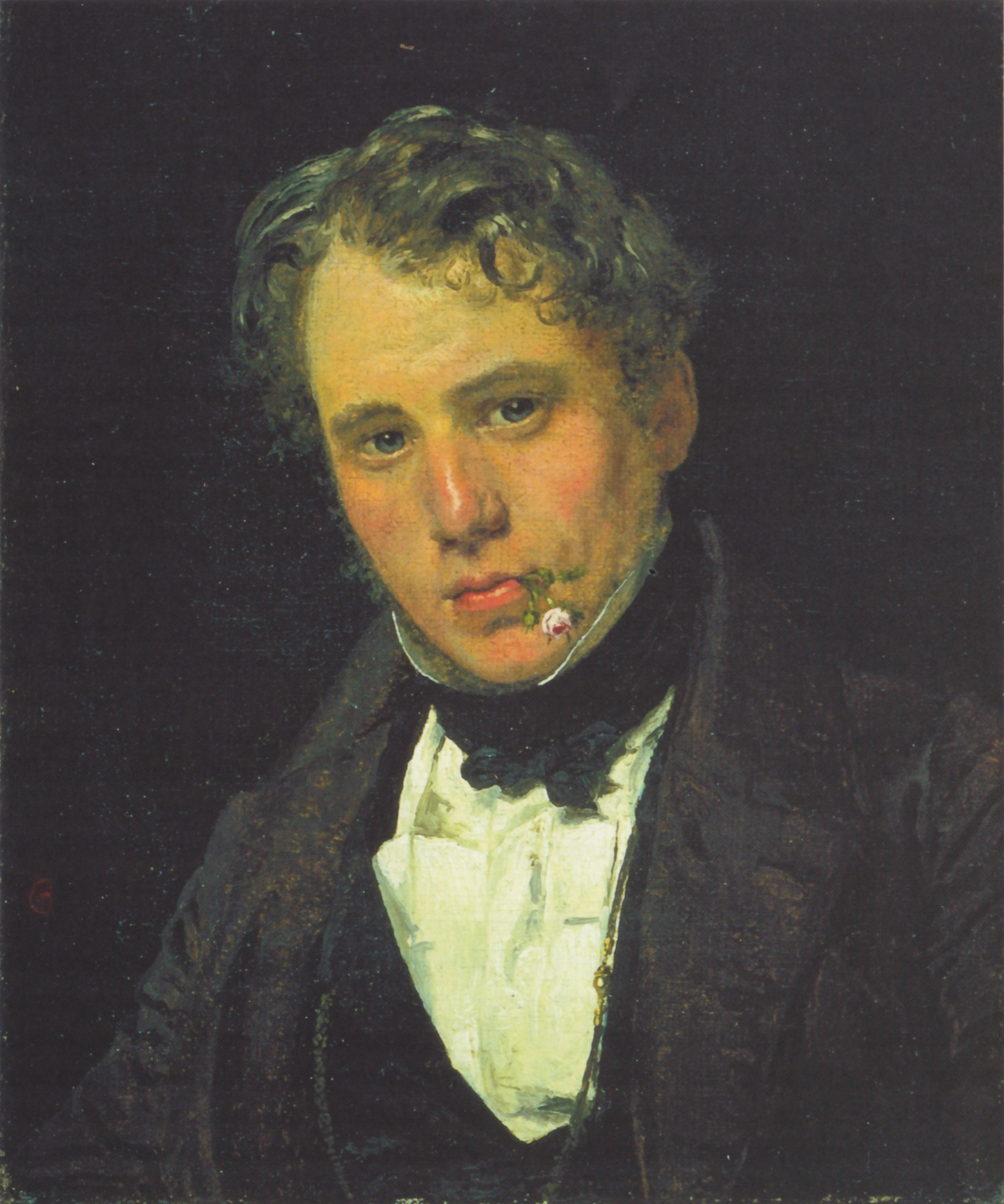 Christen Købke made this painting of Wilhelm Marstrand shortly before his friend left for Italy. Marstrand's mother was very concerned about the trip, so Købke made a little comical relief by painting Marstrand with a rose in the corner of his mouth.